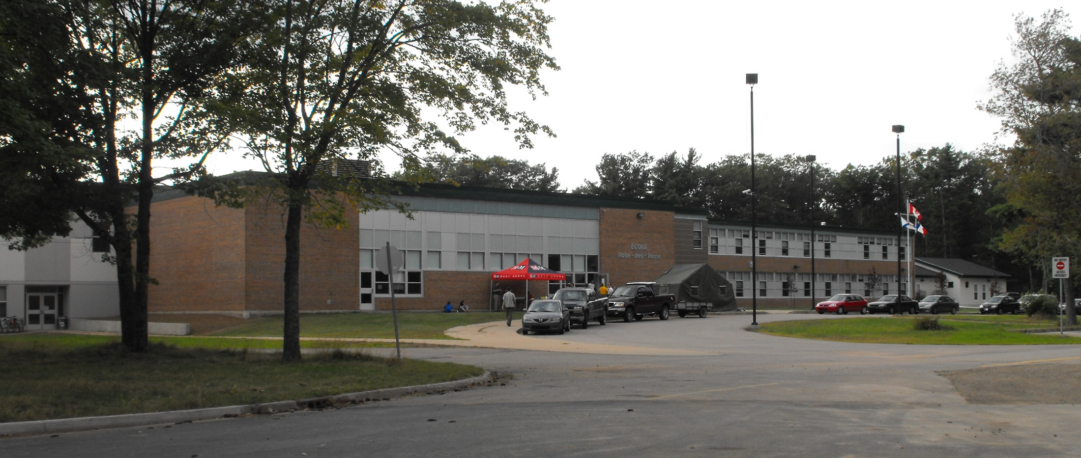 Ecole Rose Des Vents (Compass Rose School) in Greenwood, Nova Scotia